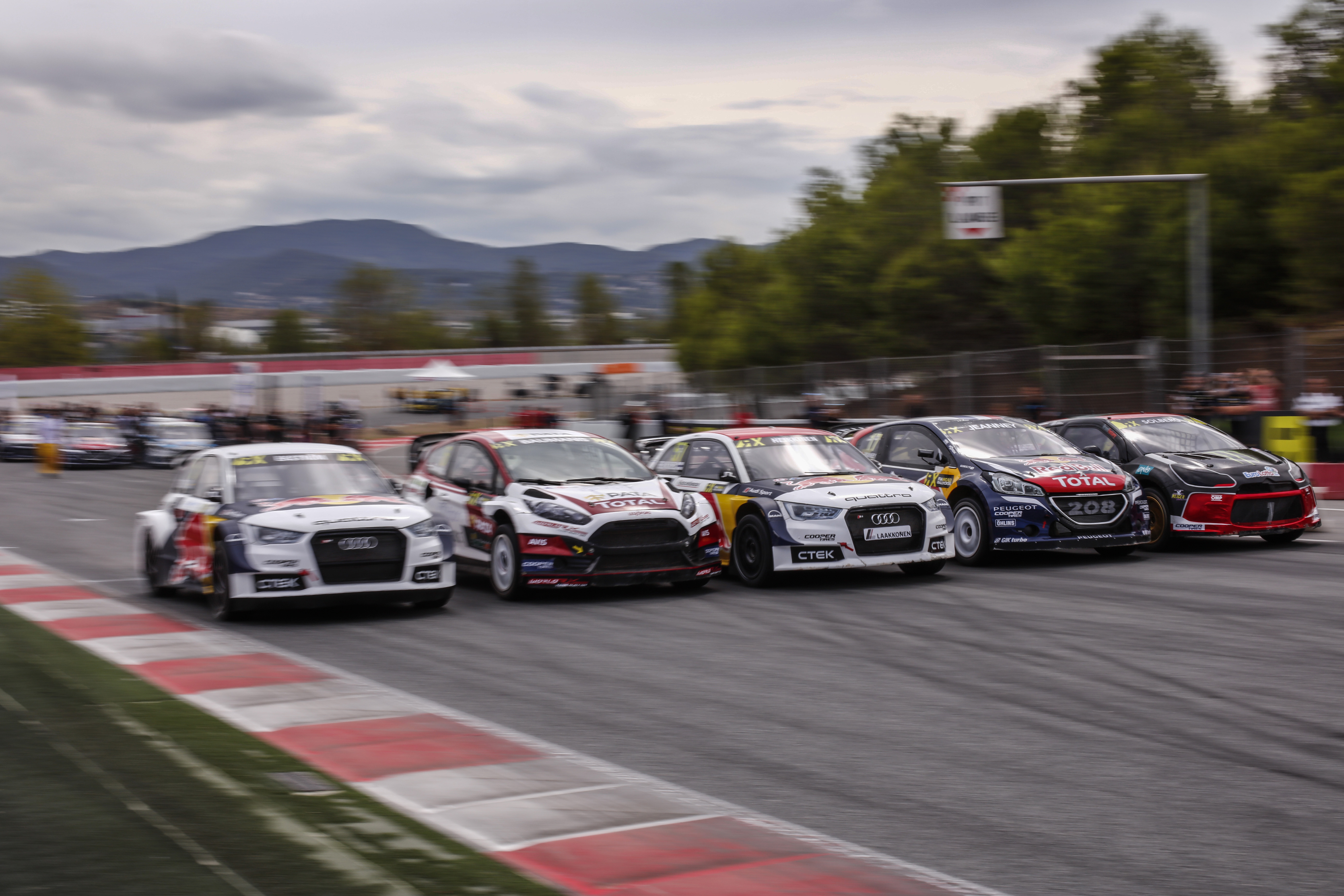 2016 FIA World RX Rallycross Championship / Round 09, Barcelona, Spain, September 17-18 2016 // Worldwide Copyright:Tony Welam/EKS/McKlein 2016 FIA World RX Rallycross Championship / Round 09, Barcelona, Spain, September 17-18 2016 // Worldwide Copyright:Tony Welam/EKS/McKlein